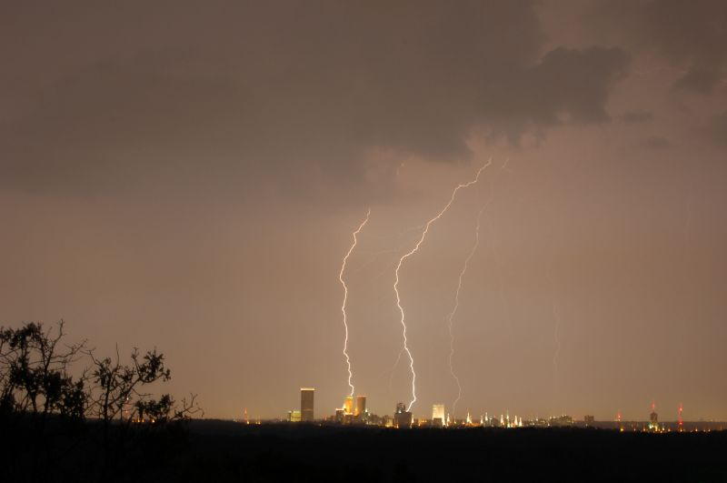 Lightning strikes over downtown Tulsa, Oklahoma.